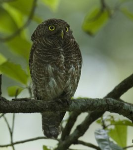 [Asian Barred Owlets]